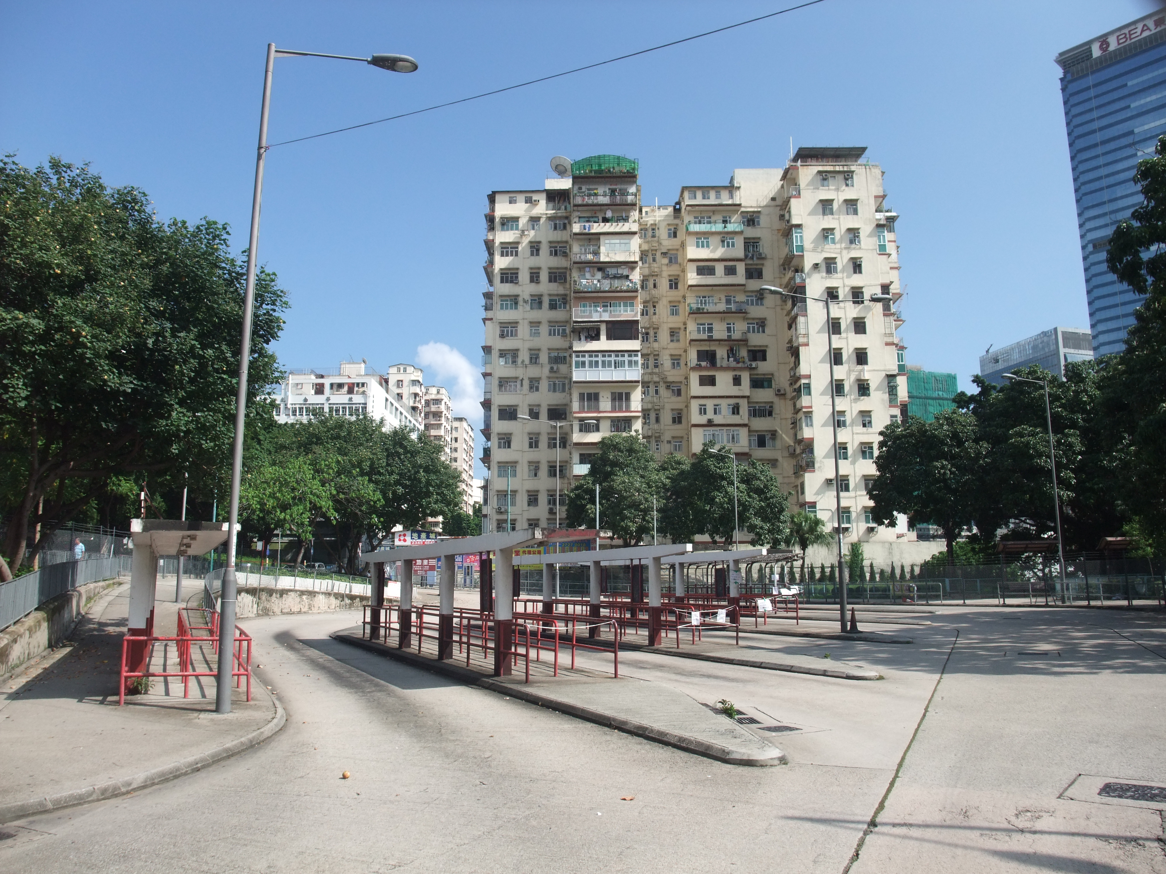 Photo of Kwun Tong (Yuet Wah Street) Bus Terminus (closed)